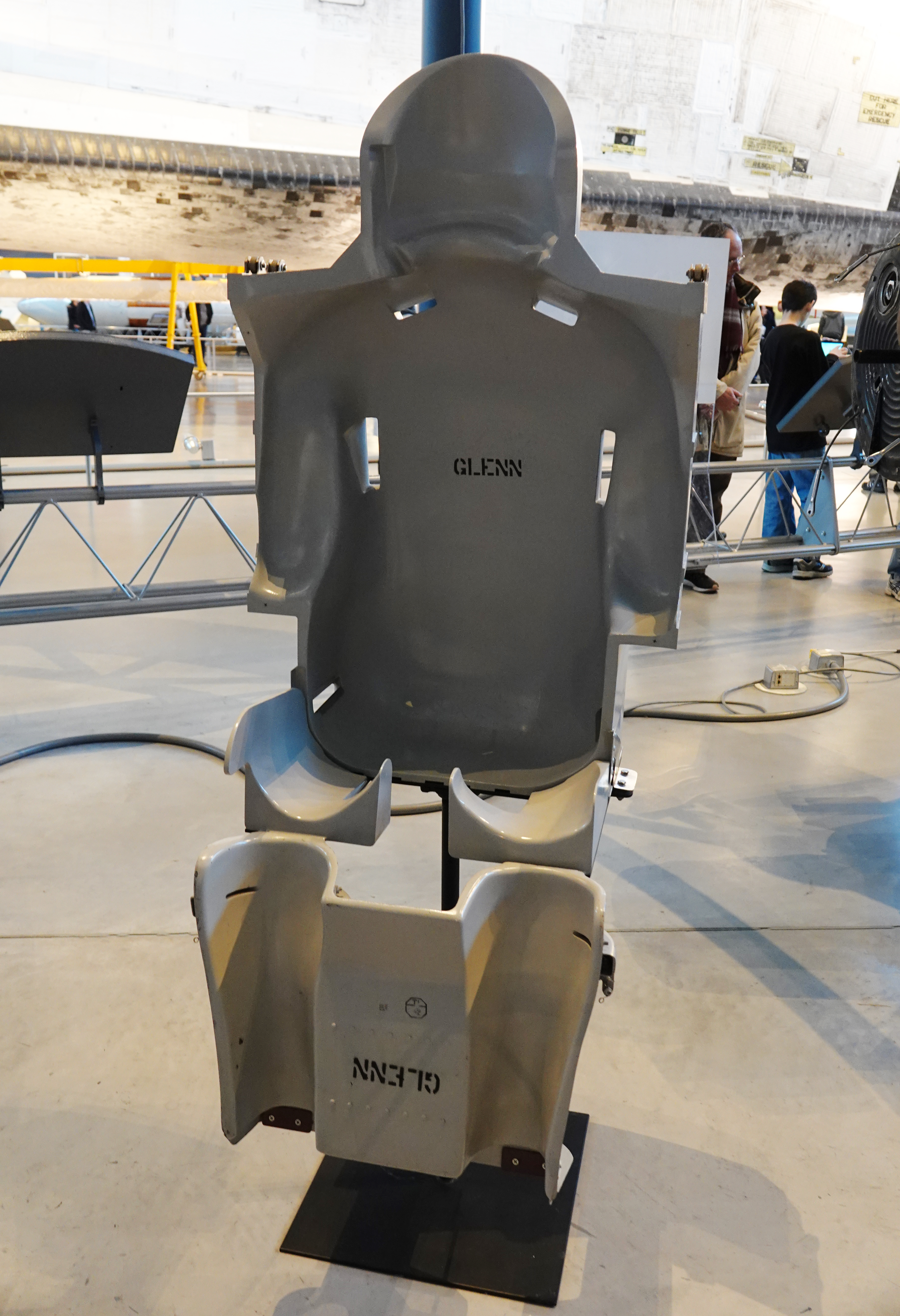 Astronauts in Project Mercury, the first U.S. human spaceflight program, experienced very strong "g" forces during acceleration into space and deceleration during reentry--up to 11 times Earth's gravity. To better withstand these forces, each astronaut had special form-fitted couches made for their bodies. John H. Glenn, Jr., the first American to orbit the Earth, used this couch for "g" training in the centrifuge at the Naval Air Development Center in Johnsville, Pennsylvania, between 1959 and 1962. To create this couch, a NASA contractor made a plaster cast of the astronaut's body in a sitting position, then used the form to make the couch out of fiberglass. NASA transferred this artifact to the Smithsonian in 1968. Picture taken at the National Air and Space Museum's Steven F. Udvar-Hazy Center in Chantilly, Virginia, USA.